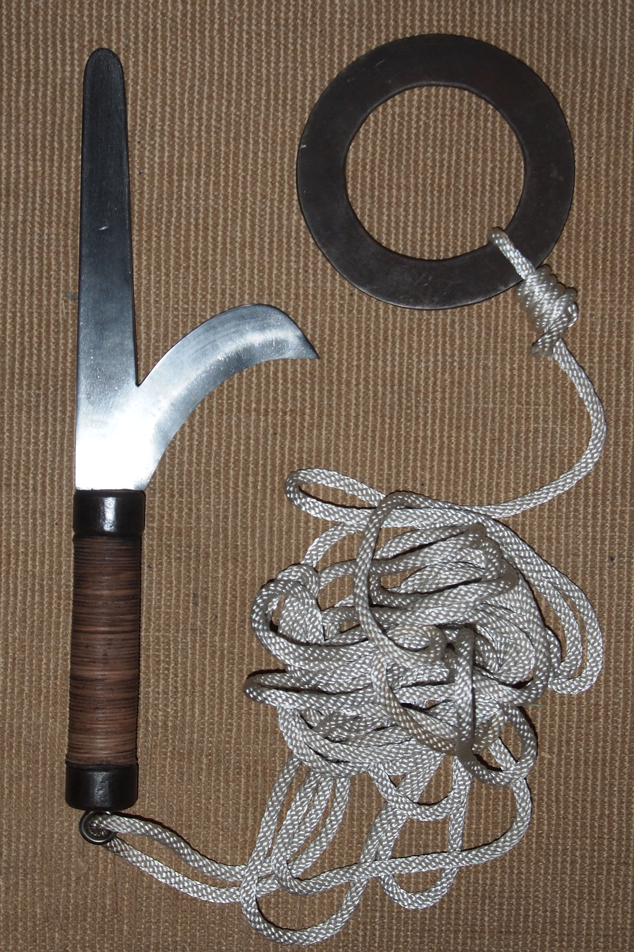 modern reproduction of a kyoketsu shoge